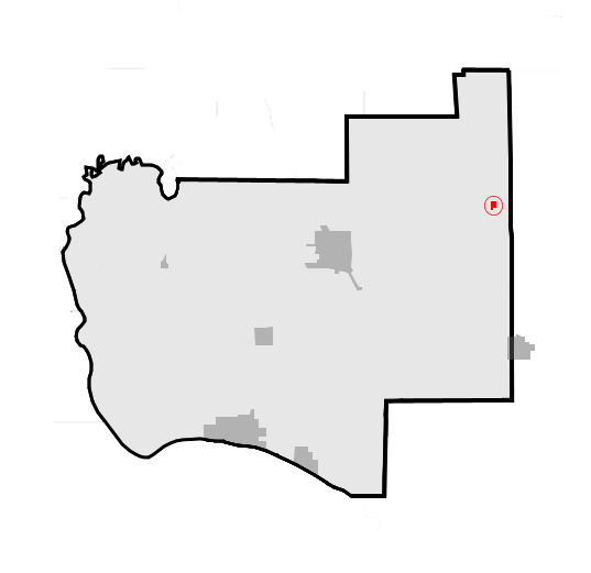 This is a map of Jersey County, Illinois, United States, which highlights the location of the municipality of Fidelity.